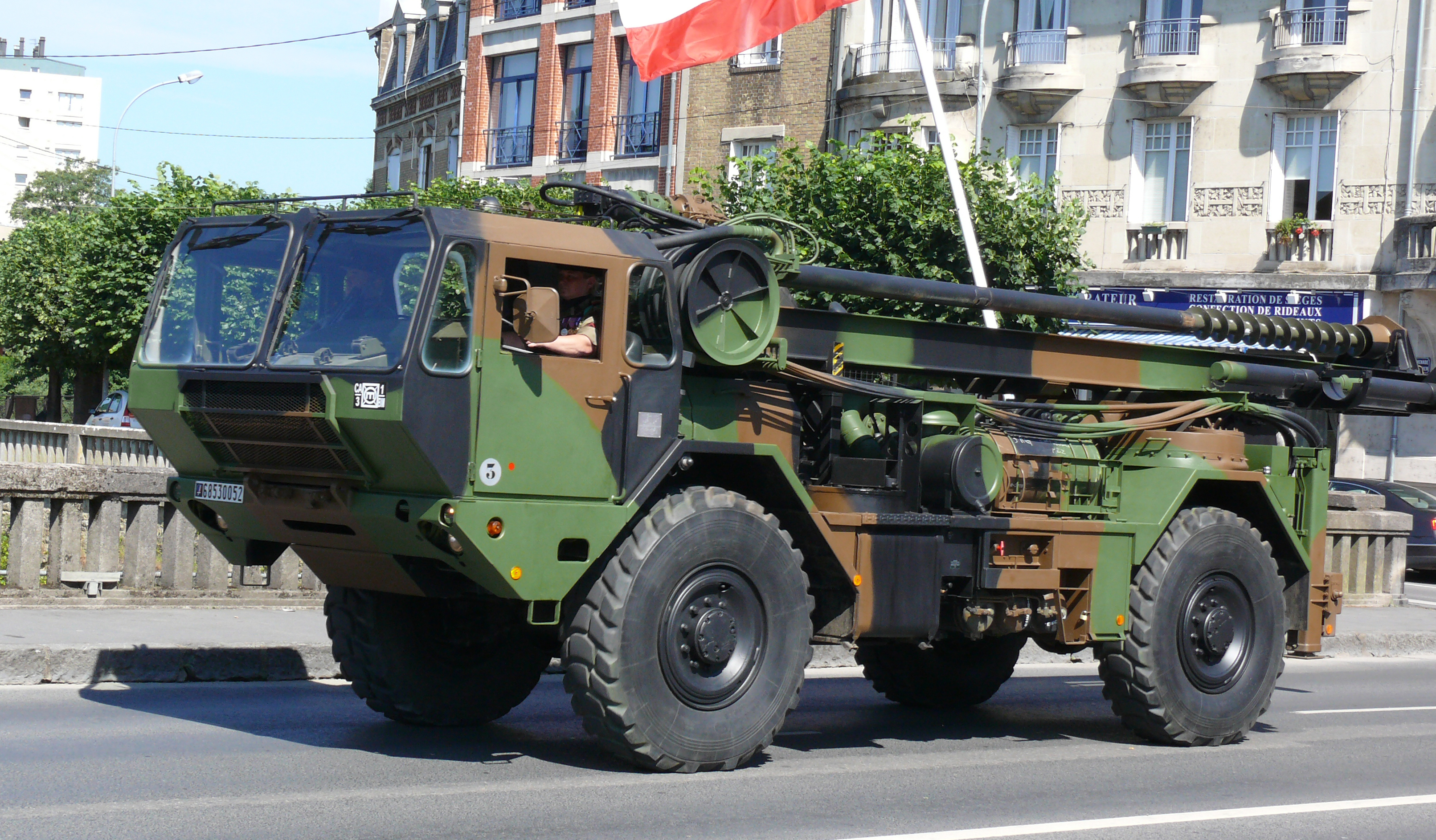 Moyen de Forage Rapide de Destruction (MFRD) of the 3rd regiment engineers, 1st Mechanised Brigade of the French Armée de Terre during the Bastille Day Parade in Charleville Mézières, 2010.